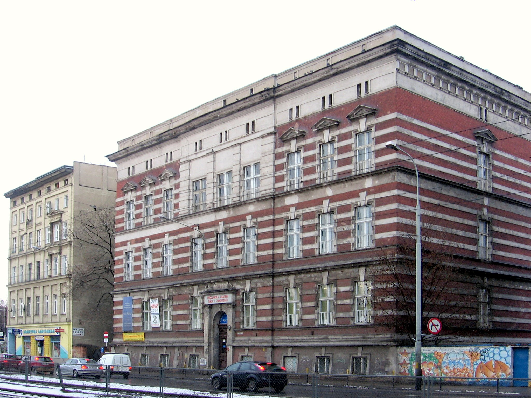 61-65 Grabiszyńska street, Wrocław, Poland: former Jewish orphanage, built in 1881 by architect Friedrich Barchewitz